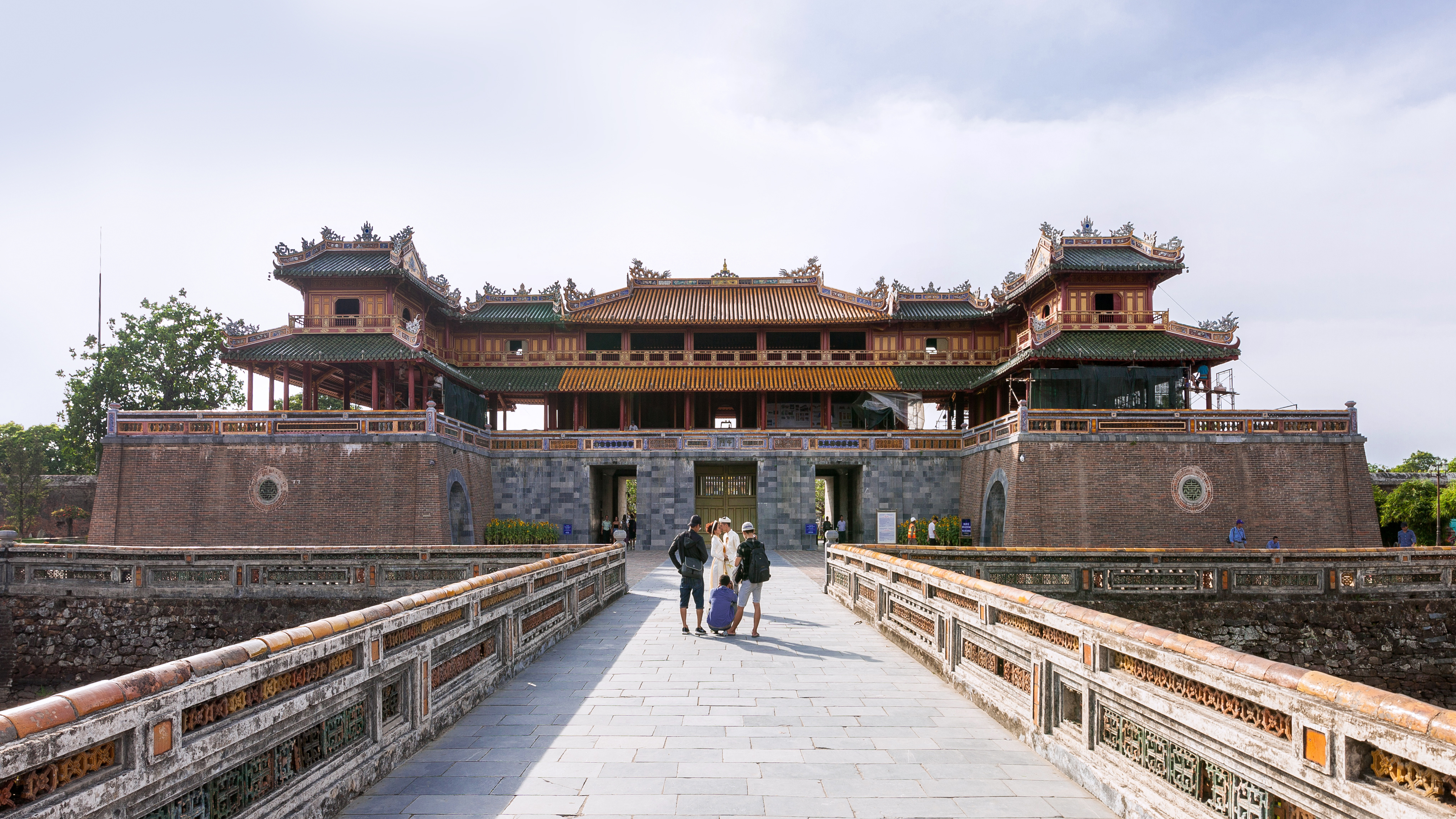 The Meridian Gate (Vietnamese: Ngọ Môn, Chinese character: 午門), also known as the South Gate, is the main gate to the Imperial City, Huế, located within the citadel of Huế.